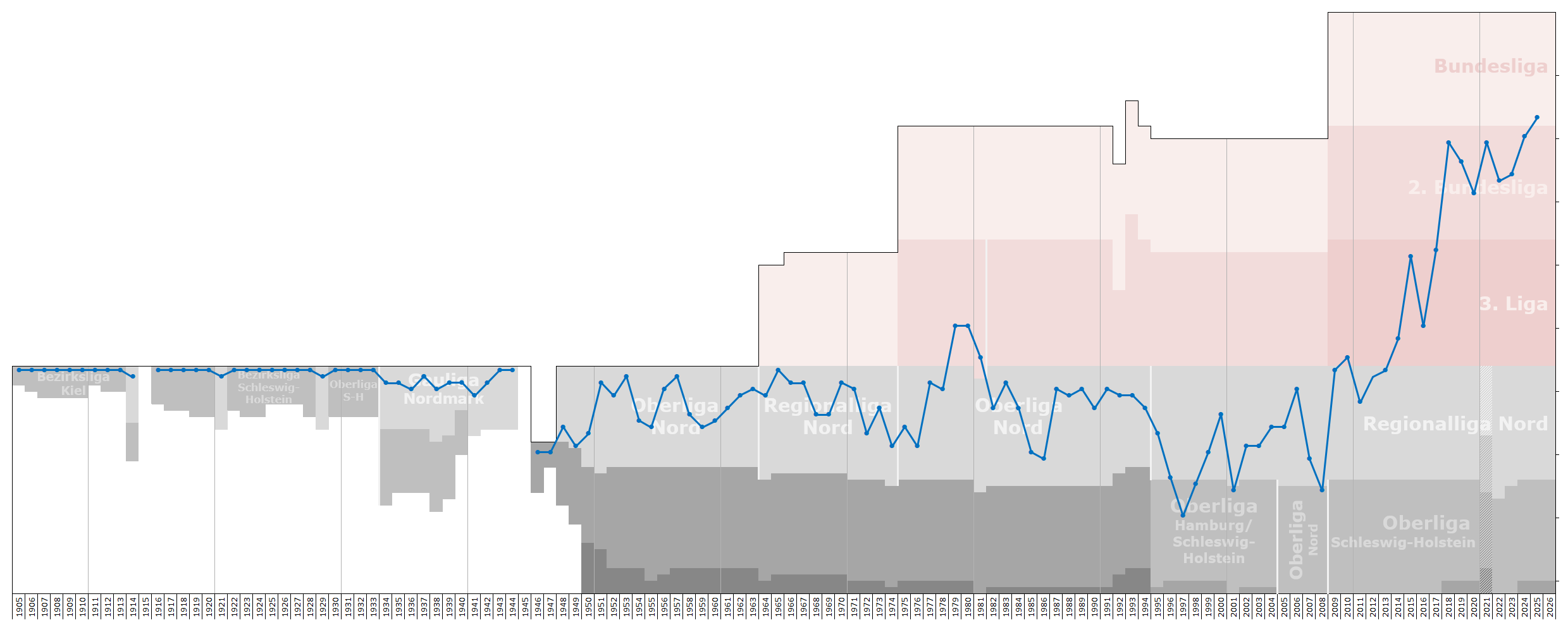 Chart of end-season table positions of Holstein Kiel in the football league system of Germany. Data source: RSSSF, wikipedia, f-archiv.de, fussball.de